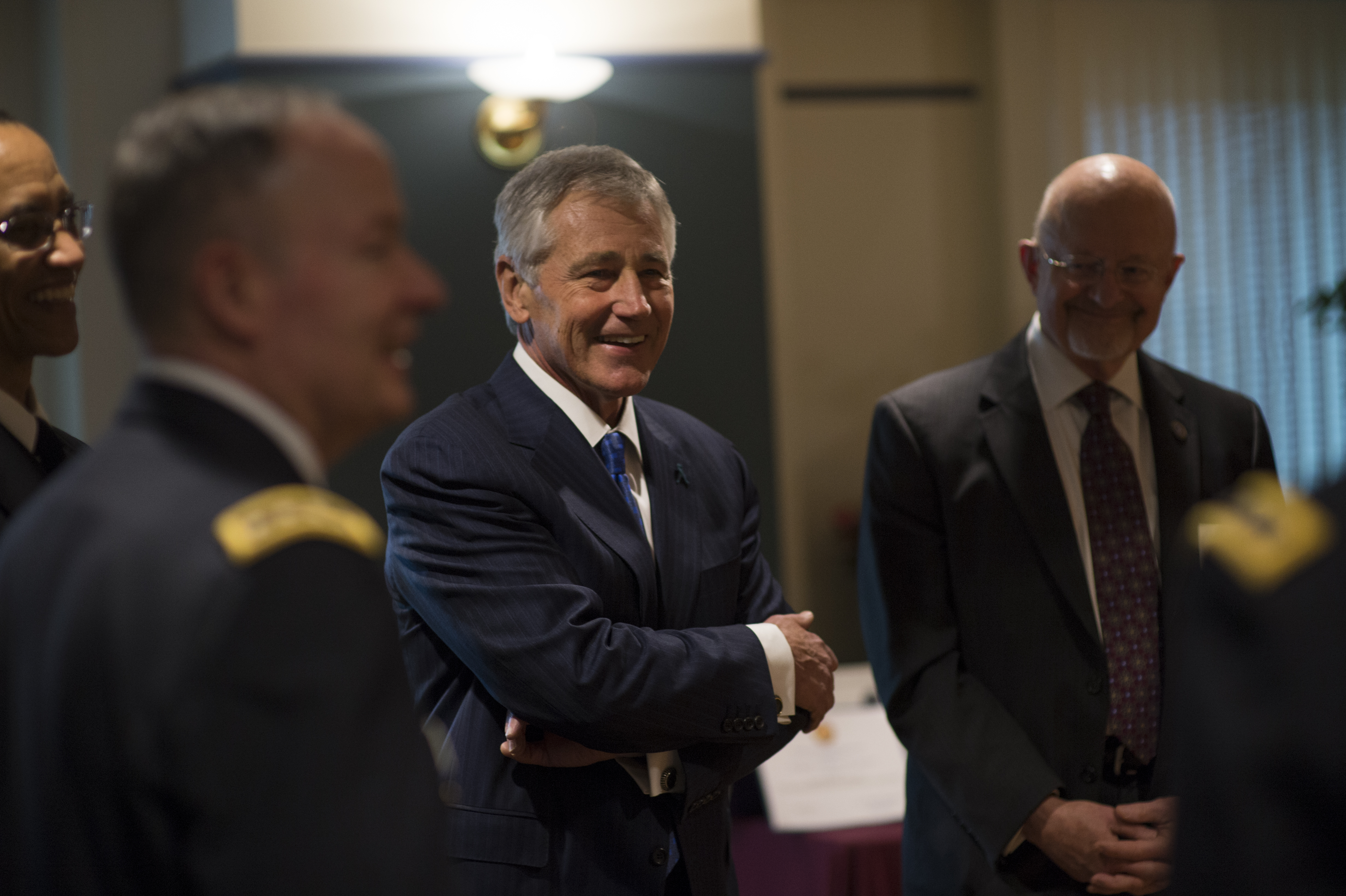 Secretary of Defense Chuck Hagel, center, shares a laugh with other guests before a retirement ceremony for U.S. Army Gen. Keith B. Alexander March 28, 2014, at the National Security Agency (NSA) at Fort George G. Meade, Md. Alexander served as the director of the NSA during the last assignment of his 39-year Army career.